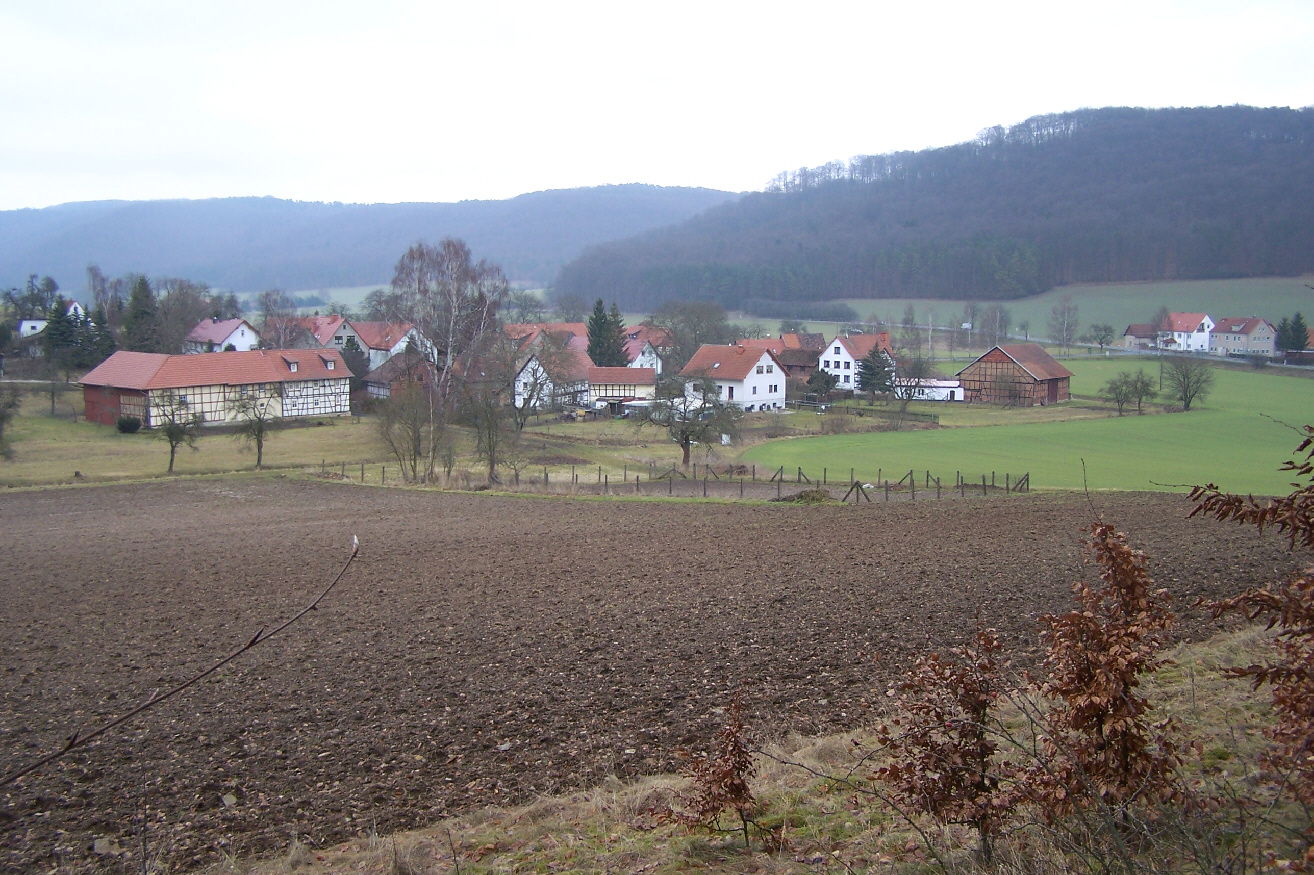 Volteroda village.